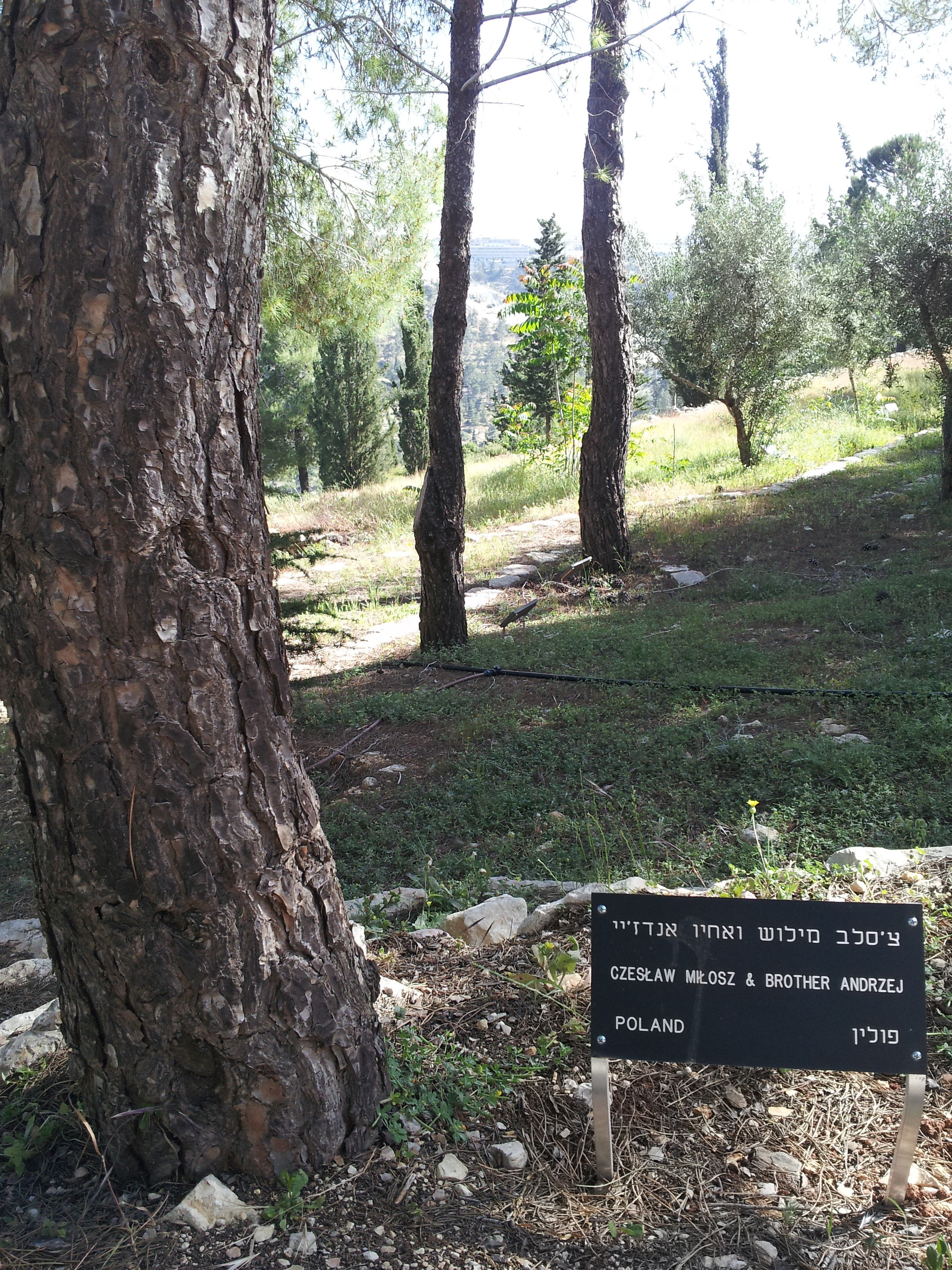 Righteous Among the nations Csezlaw Milosz tree at Yad Vashem